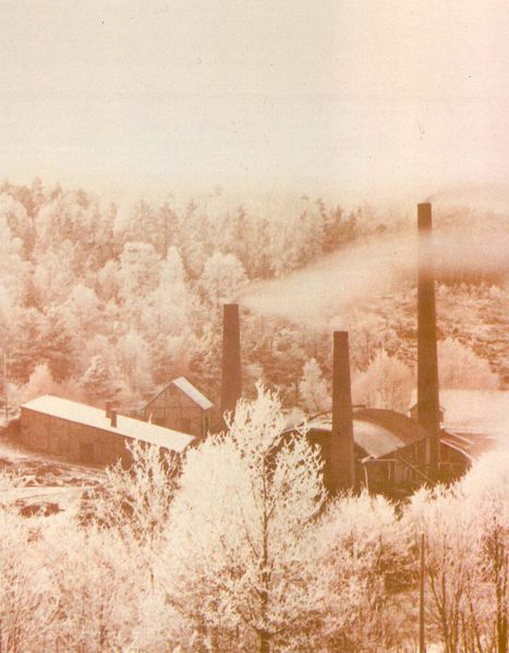 Old photograph of 1884 Perstorp plant for purification and concentration of acetic acid.